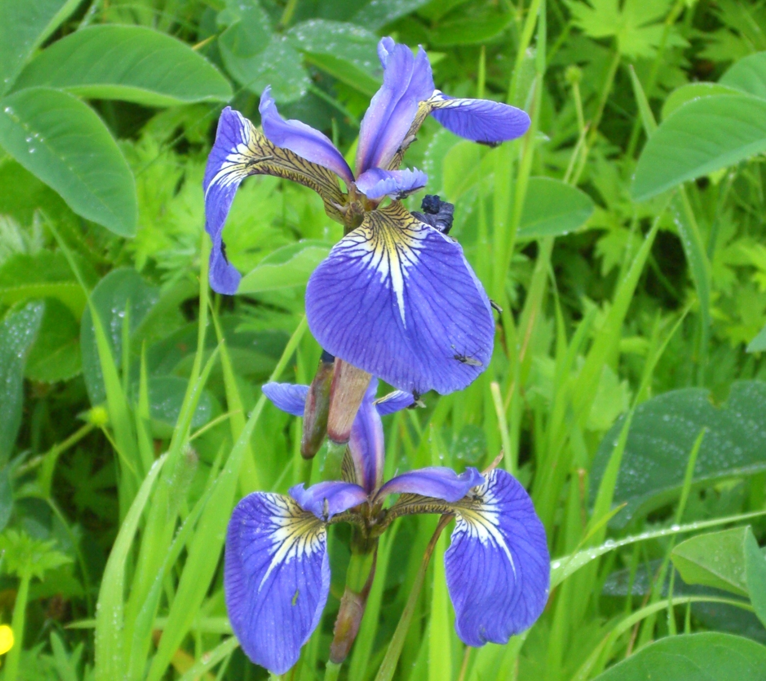 Iris_setosa ヒオウギアヤメ Kiritappu Wetland, Hokkaido, Japan